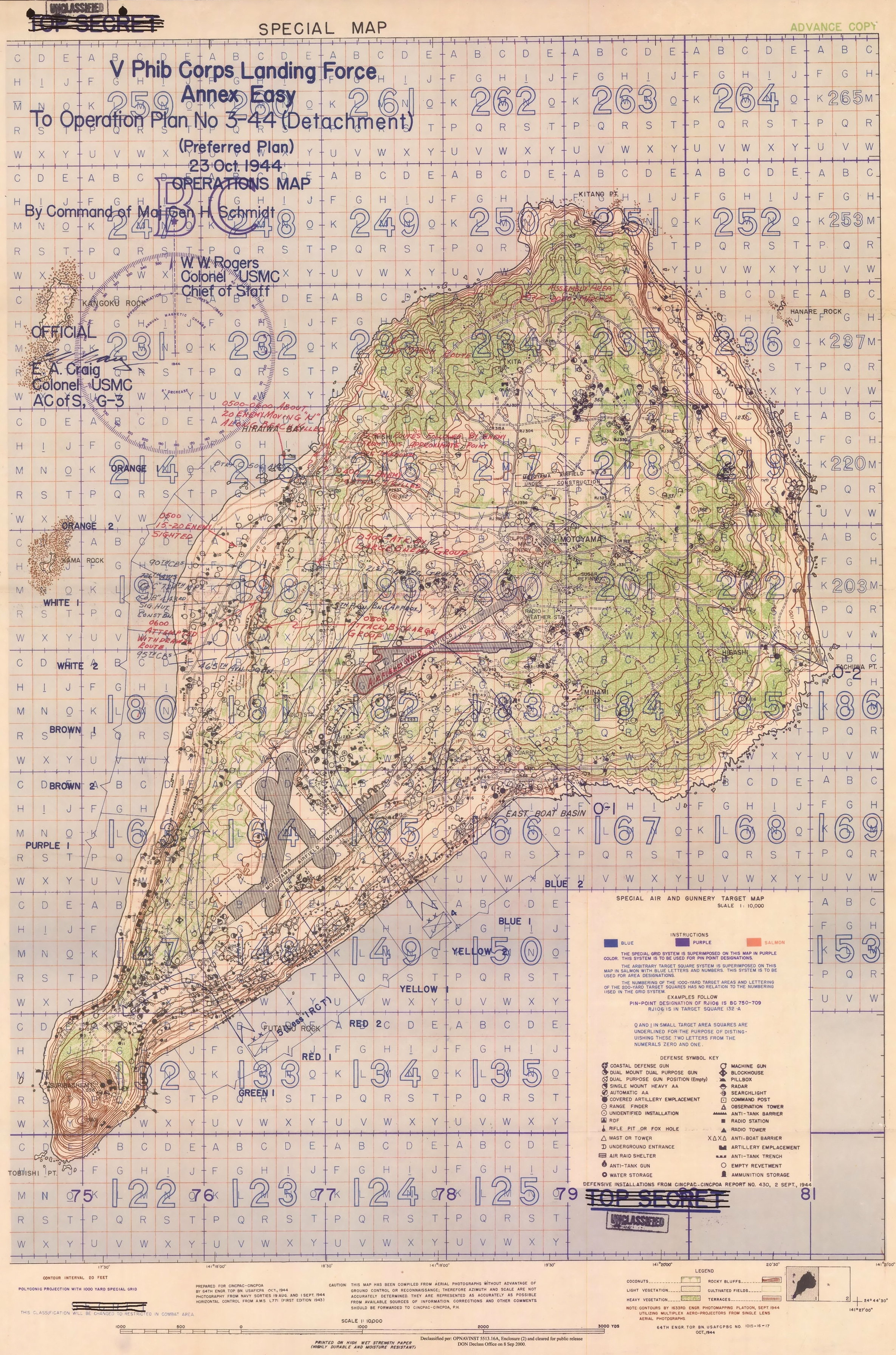 Iwo Jima Historical Map (Poster)